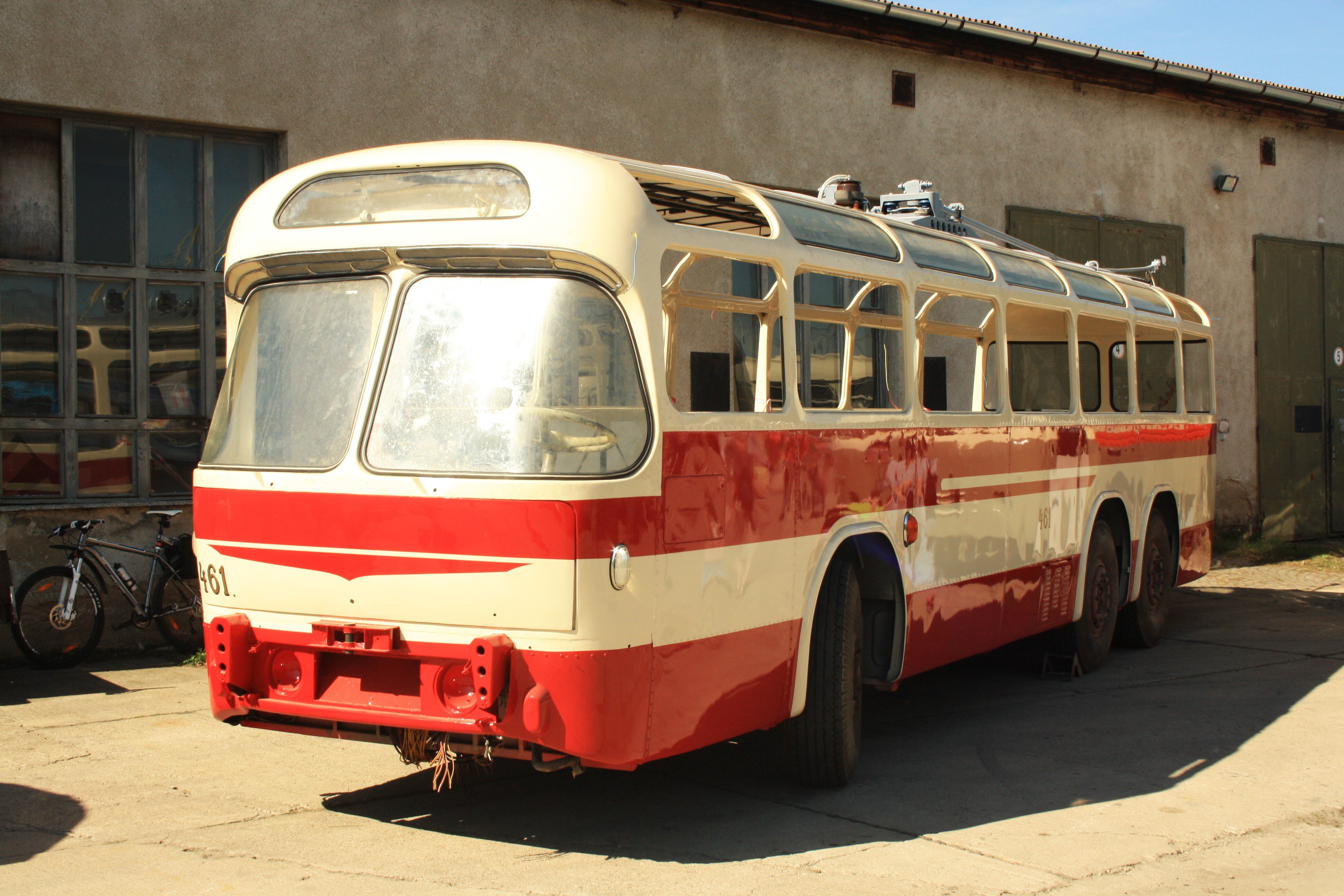 Historical trolleybus Tatra T 401 (ex Prague), depository of Technical Museum in Brno, Czech Republic This photograph was taken with a DSLR from WMCZ's Camera grant.